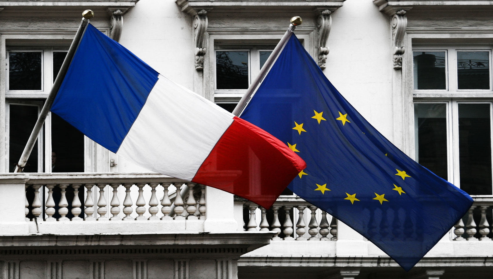 French and European flags at the French Consulate, London.